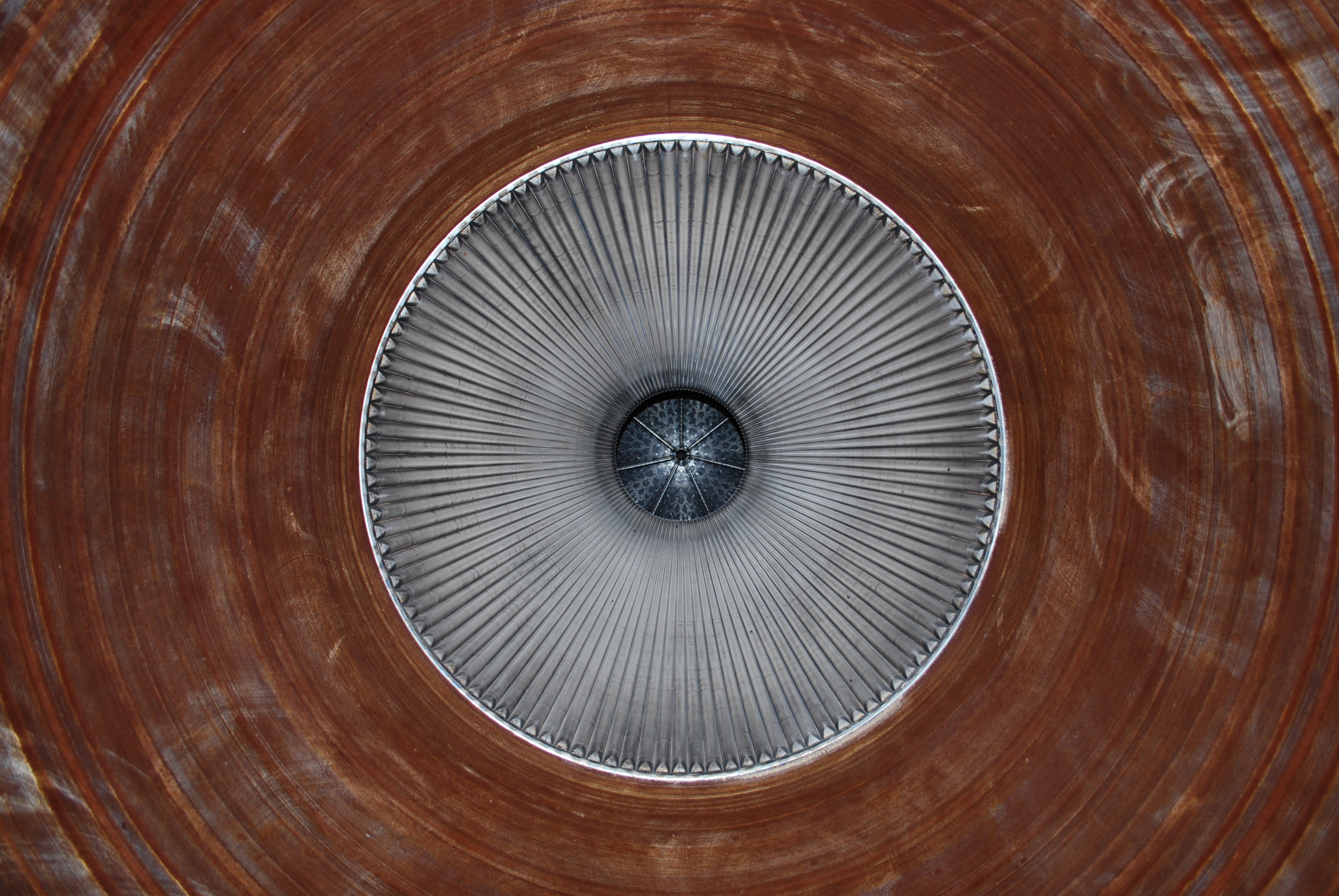 The LR91-AJ-11 engine powered the Titan IV second stage, providing 105,000 pounds-force of thrust. The engine weighed approximately 1,300 pounds.